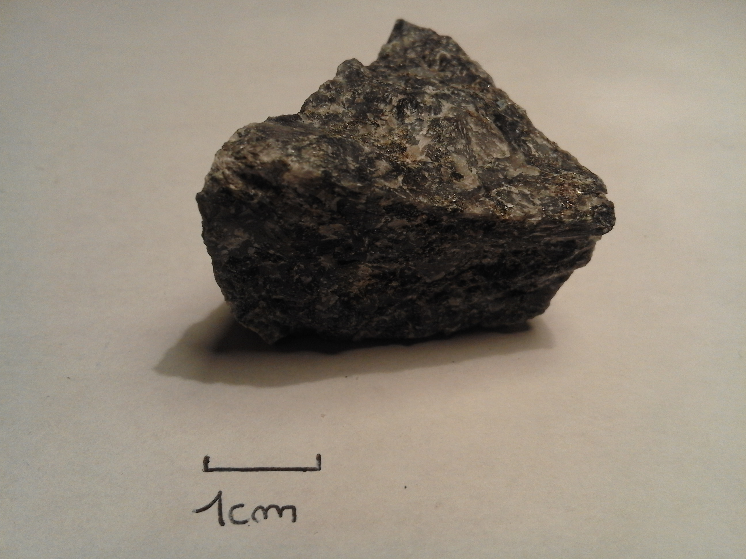 Metagabbro with hornblende (Pays de la Loire, France)